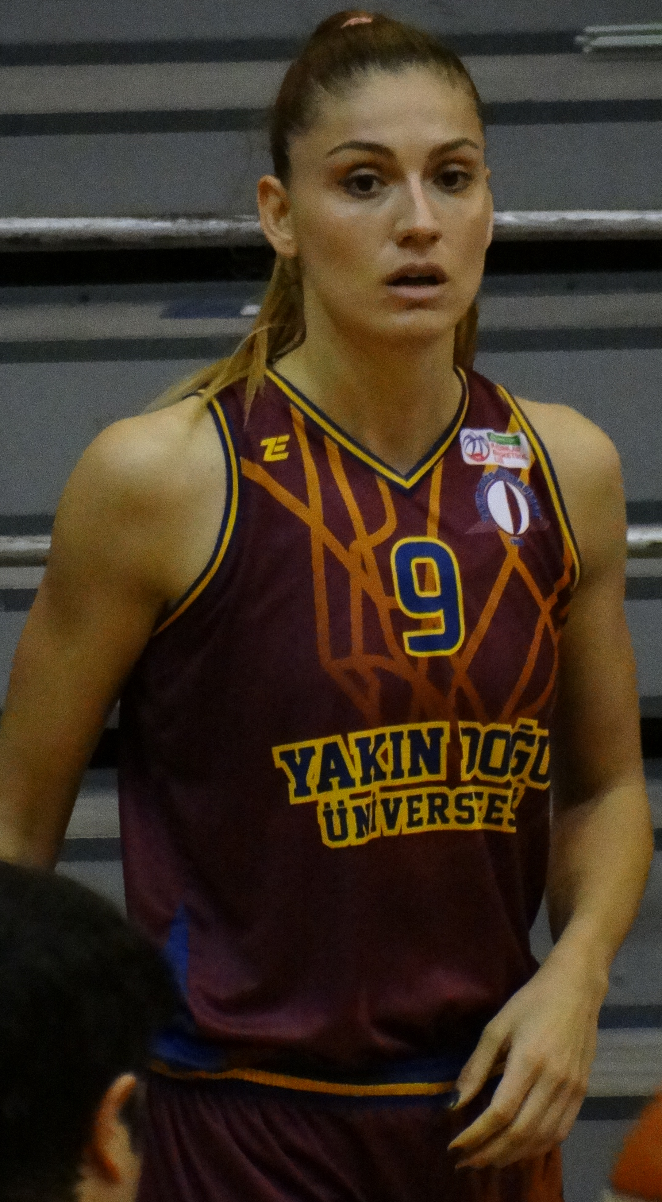 Bahar Çağlar Fenerbahçe Women's Basketball vs Yakın Doğu Üniversitesi (women's basketball) TWBL 20180521